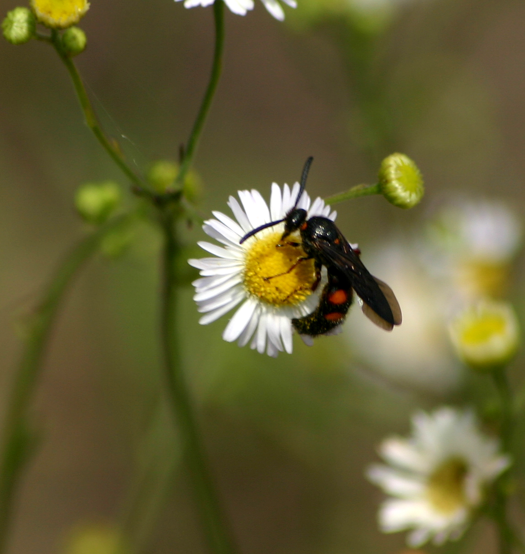 A scolid wasp (Scolia nobilitata) on Erigeron spec. somewhere in the U.S.